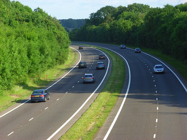 The A33 near Spencers Wood in Berkshire, England. For more information see the English Wikipedia article A33 road.